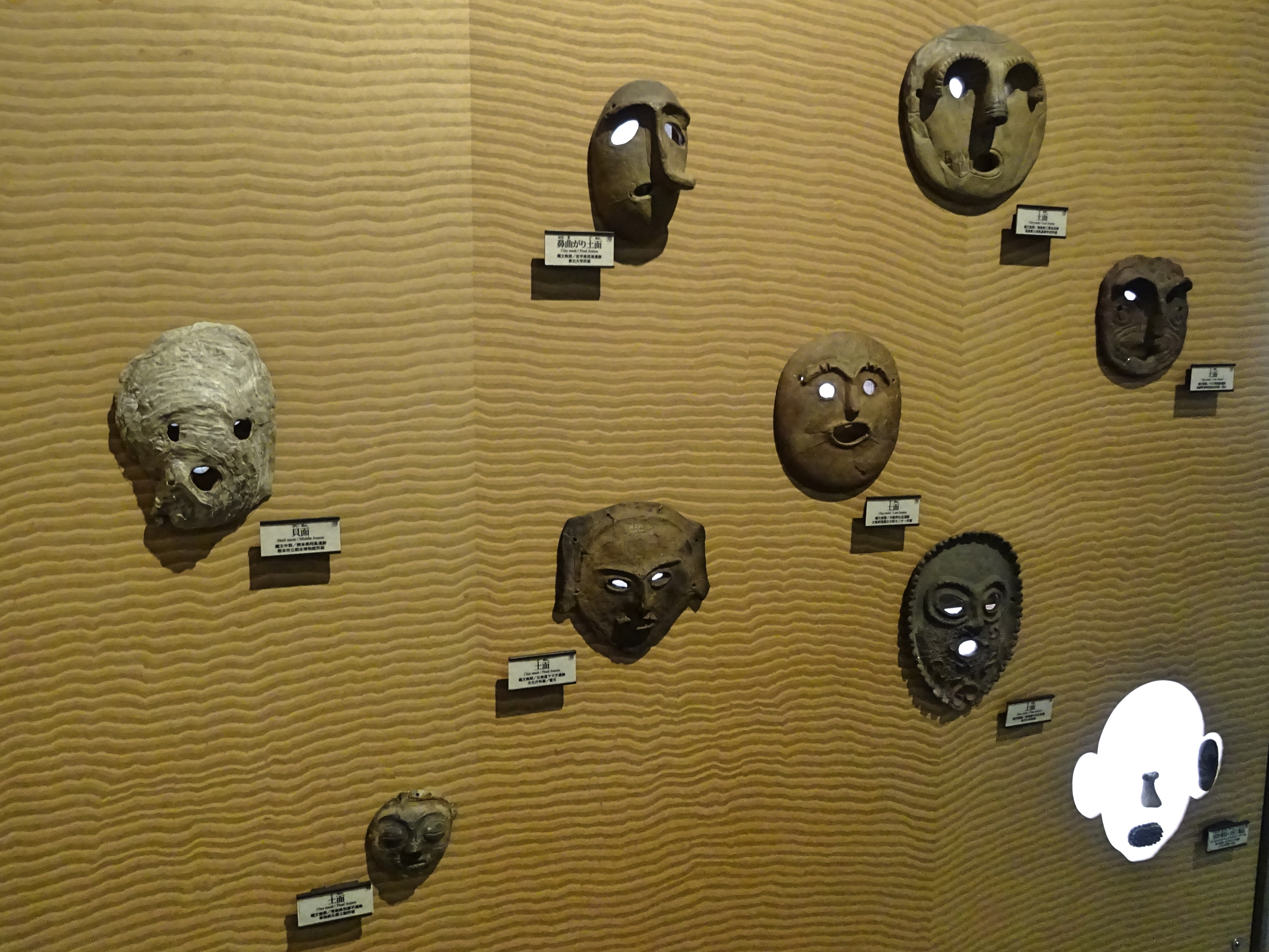 Clay masks and shell masks. Jōmon period. Exhibit at Niigata Prefectural Museum of History.